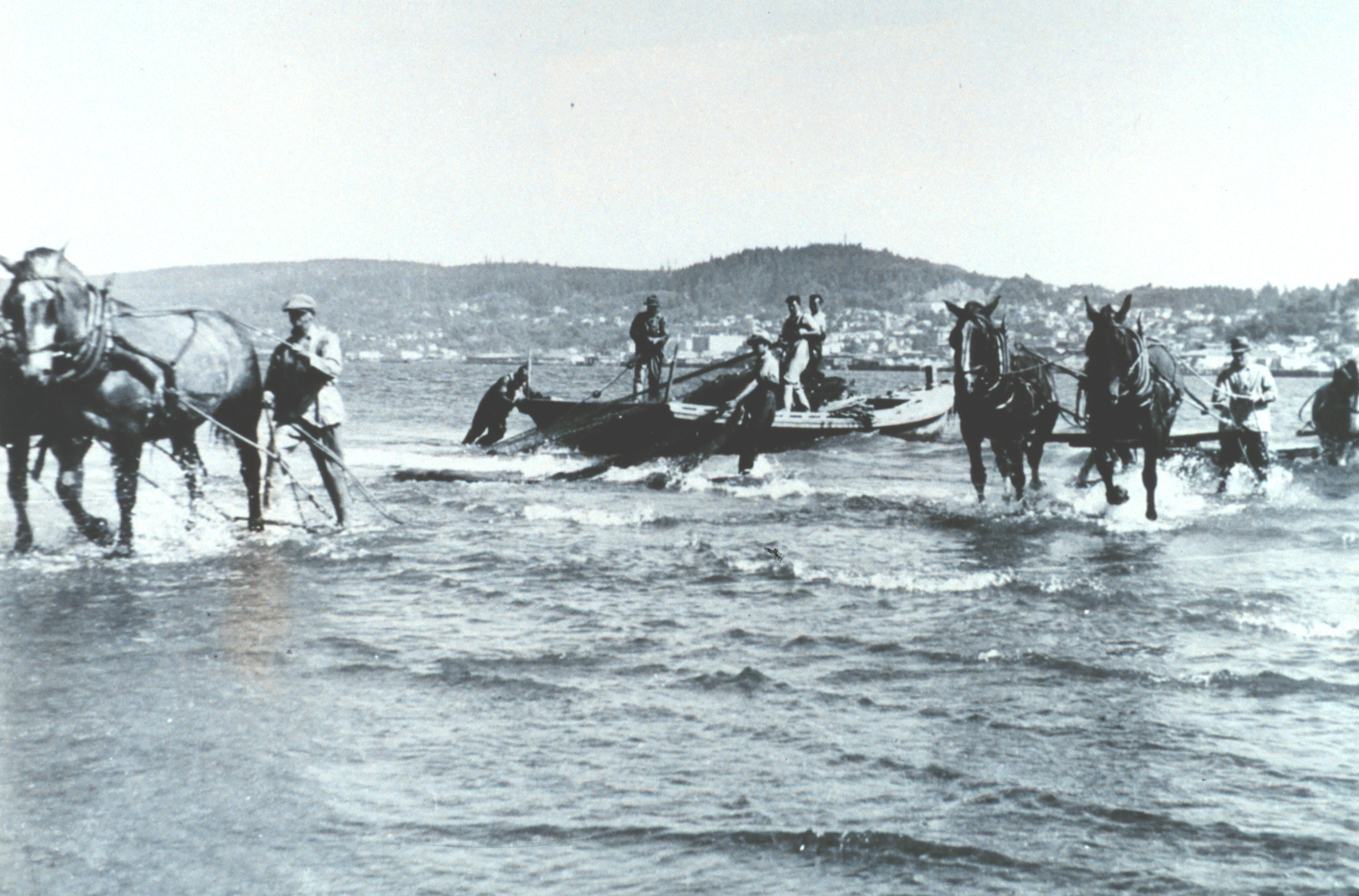 Hauling in beach seine from the Columbia River by horse teams. F&WL 12,496. Image ID: fish1354, NOAA's Historic Fisheries Collection Location: Oregon, Astoria Photo Date: 1938 Ca.